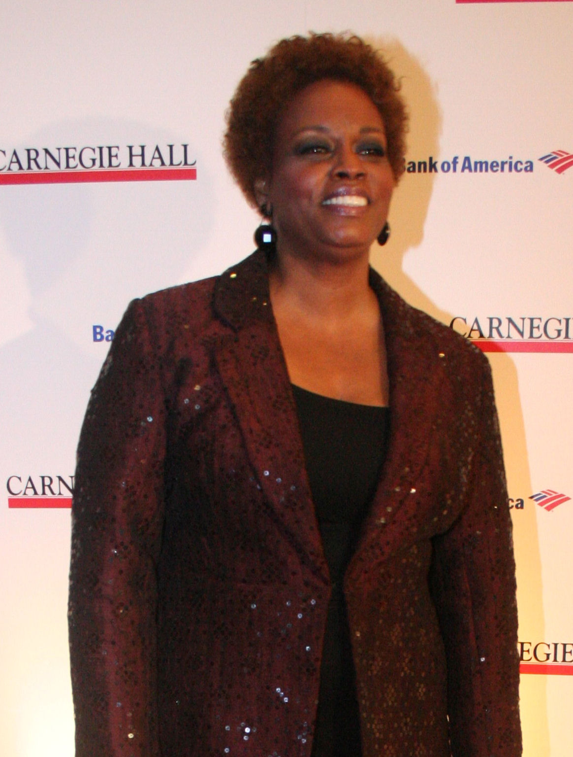 Dianne Reeves at the 120th Anniversary of Carnegie Hall in MOMA, New York City in April 2011.